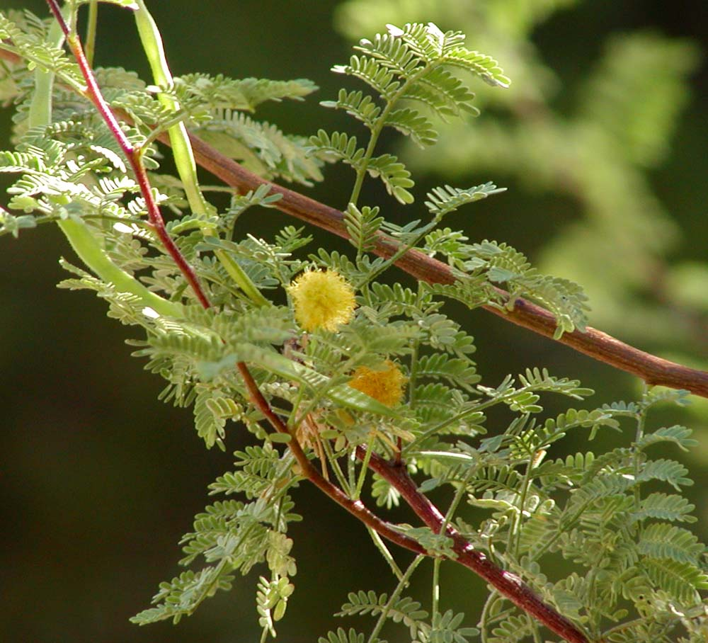 Photo of Acacia constricta (whitethorn acacia) branch at the Desert Demonstration Garden in Las Vegas